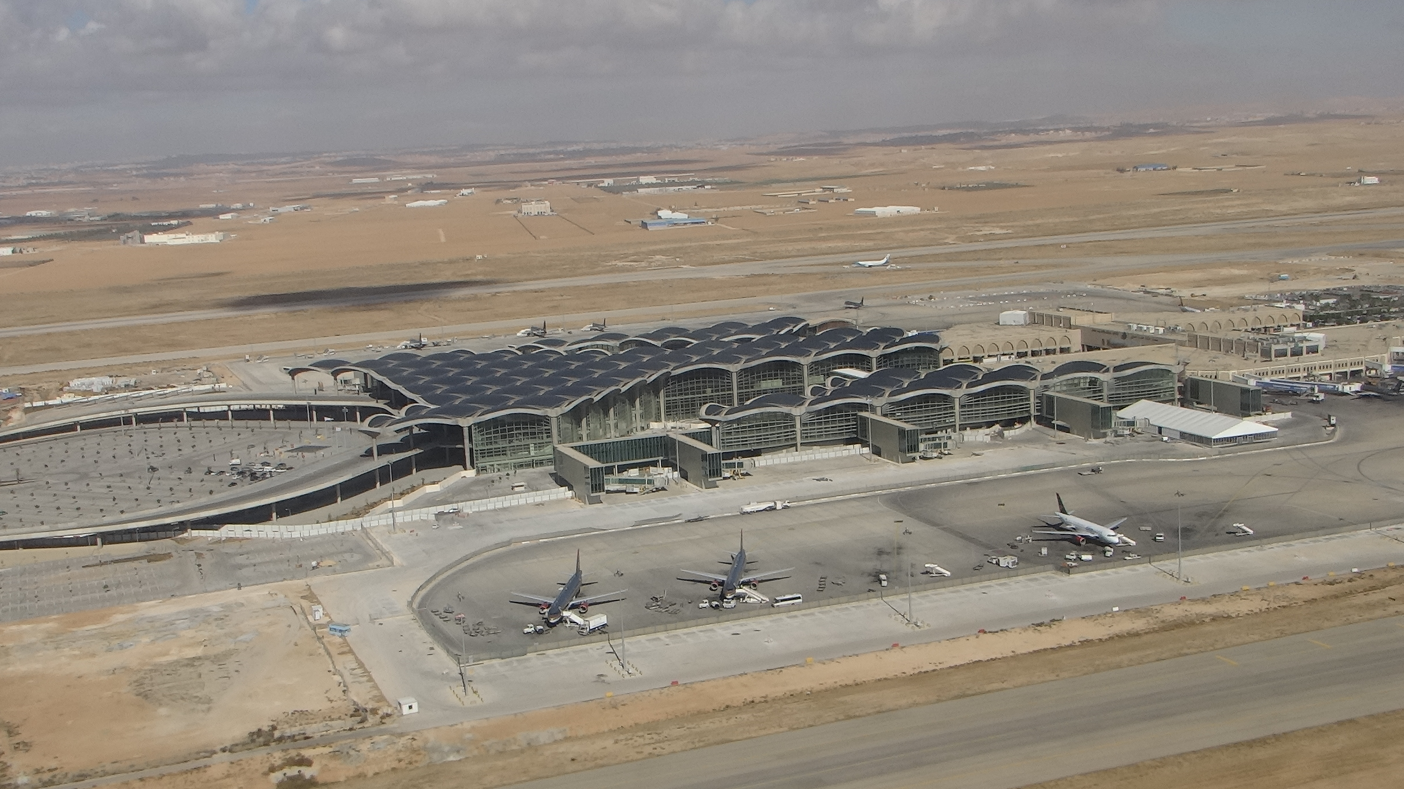 Queen Alia International Airport - New Terminal